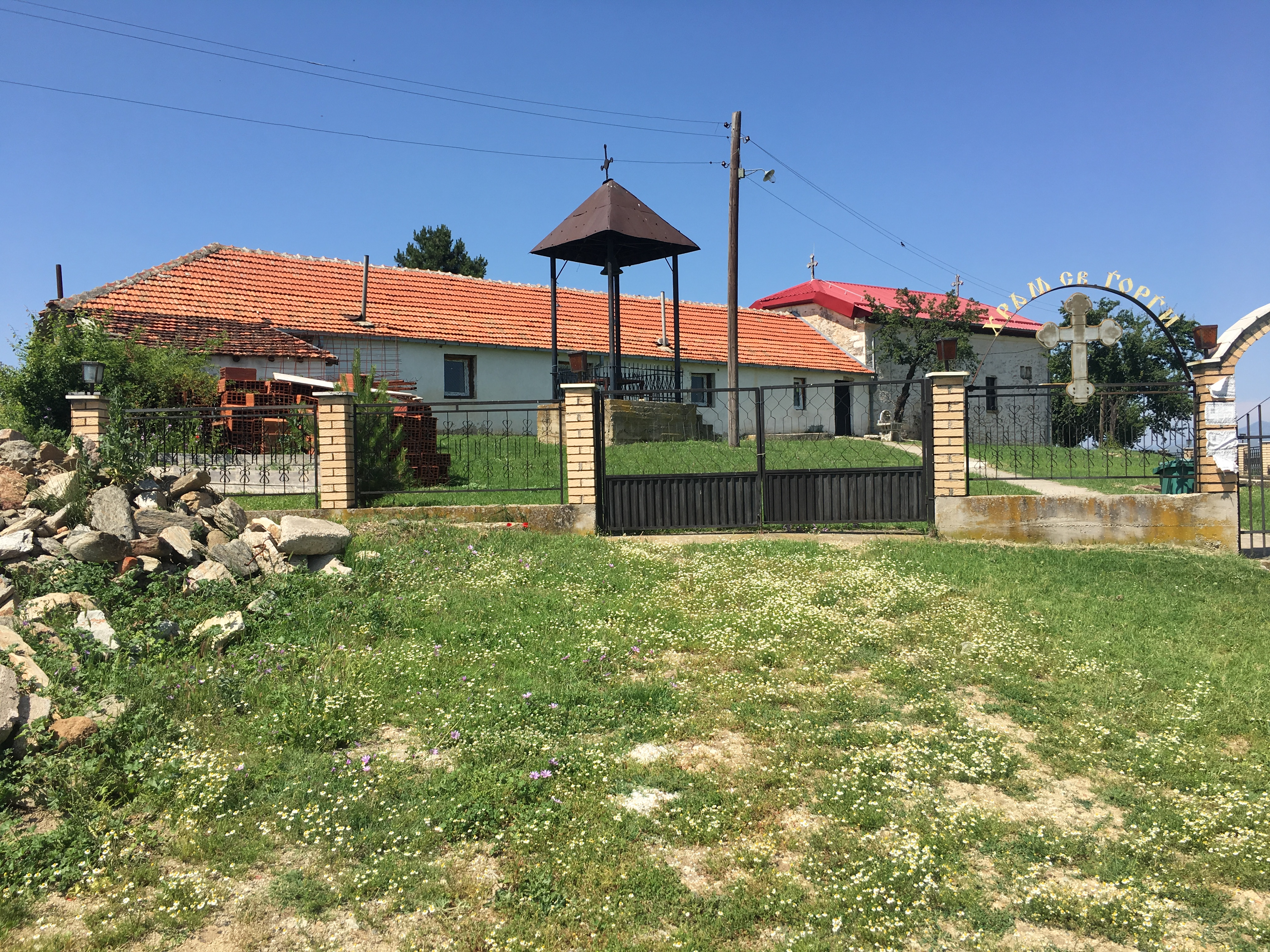 St. George Church in the village of Vašarejca